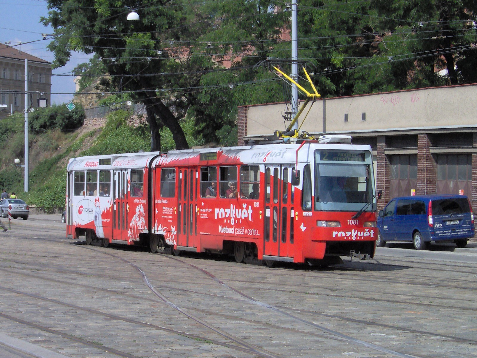 Tramway Tatra K2R.03, Brno, Czech Republic